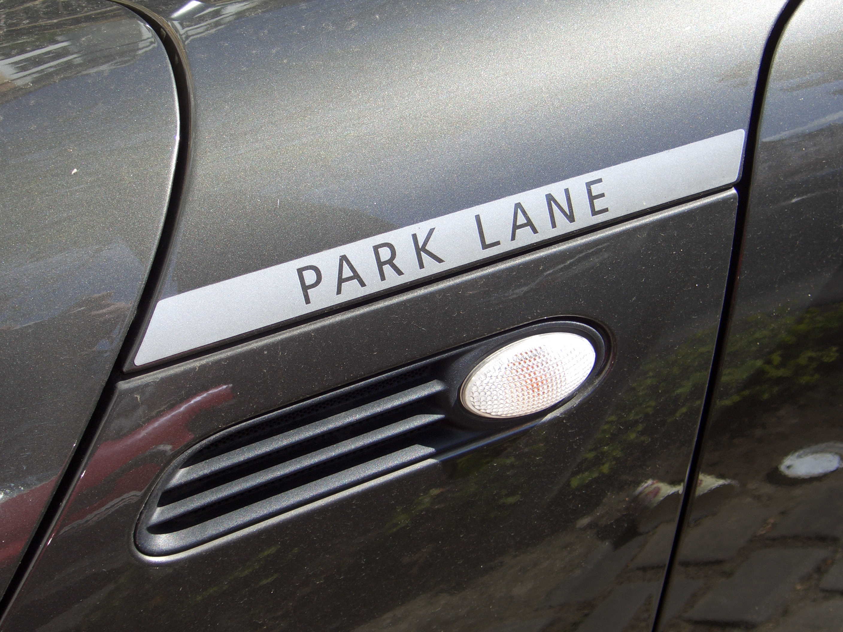 Mini (new, BMW) Cooper, PARK LANE option (from 2005), left front side (A pillar)